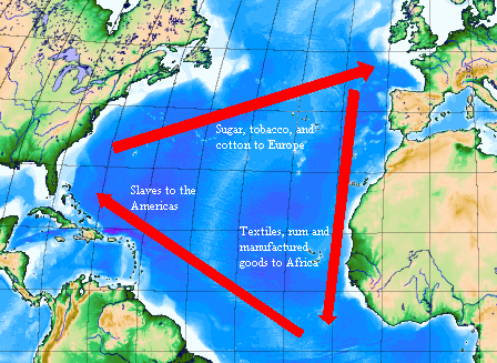 Modified version of Image:World map.png, which was created by John Monnpoly